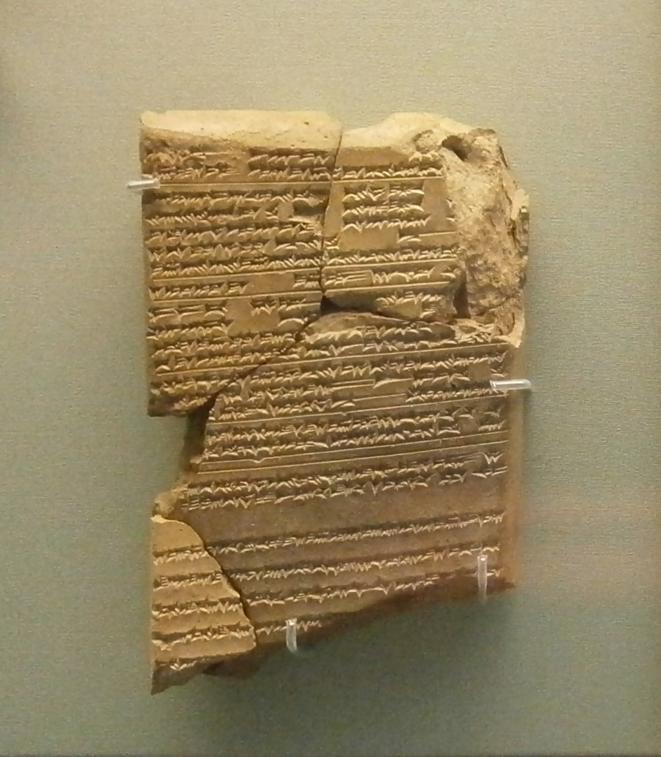 Cuneiform tablet from Nineveh, K. 3628. Medicinal and magical remedies against illnesses affecting infants. Includes instructions for making a miniature clay cylinder amulet. Nineveh, c. 650 BC.